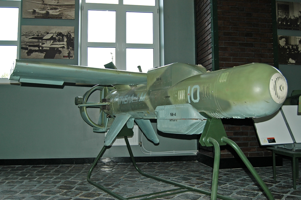 Yakovlev Pchela-1M UAV at Museum of technique of Vadim Zadorogny